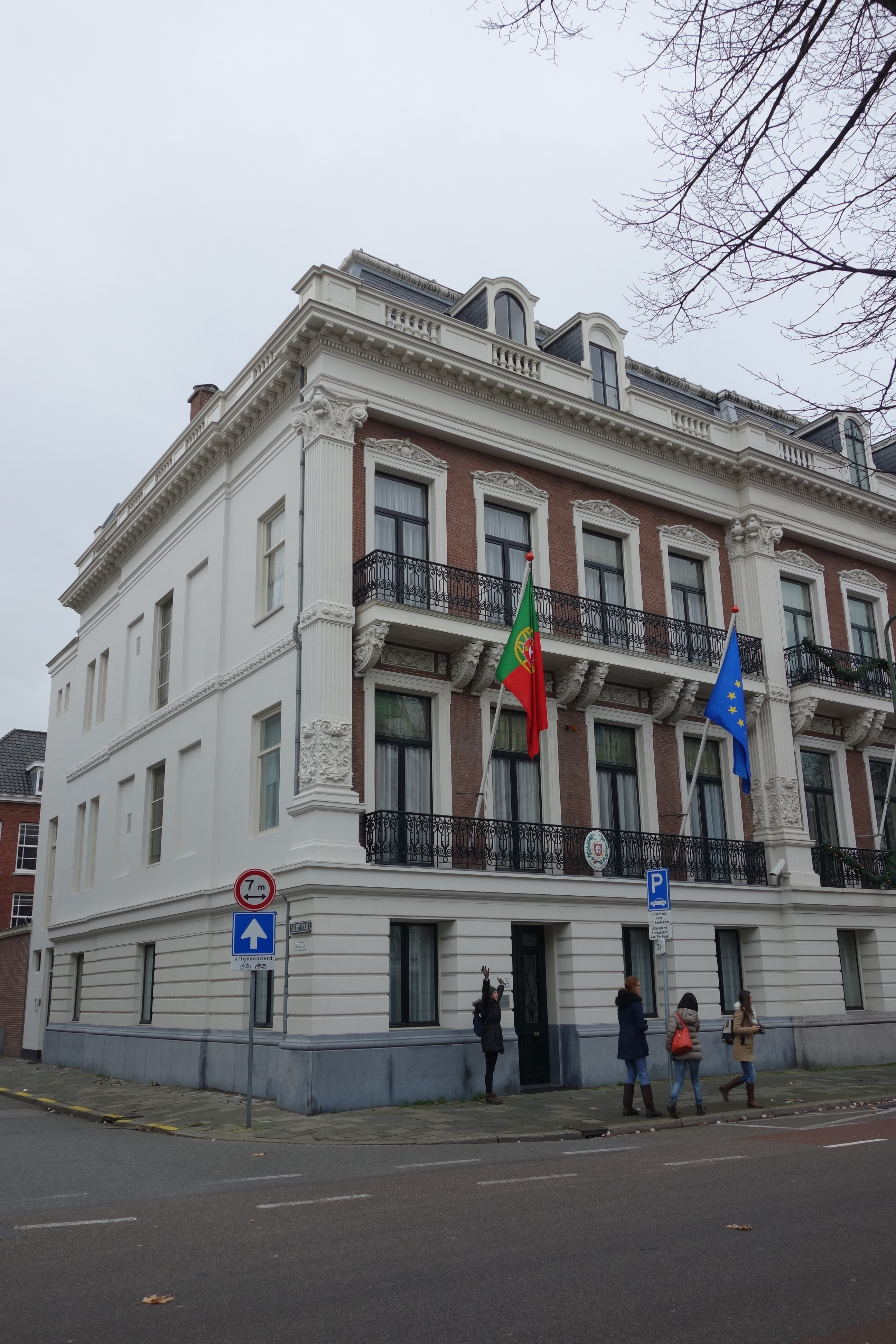 Embassie of Portugal in The Hague